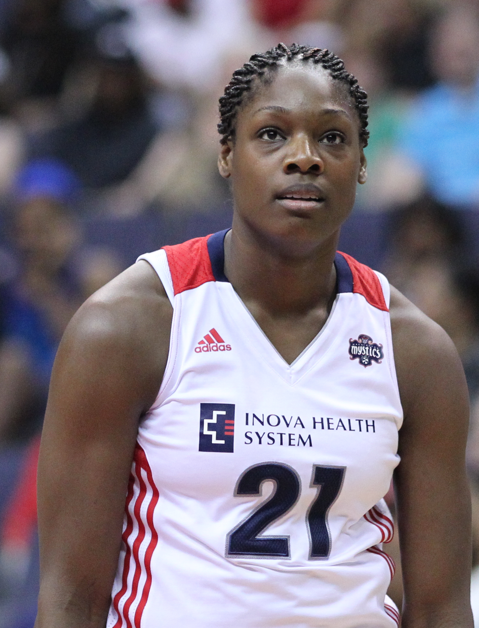 Nicky Anosike of the Washington Mystics (at time of photo)